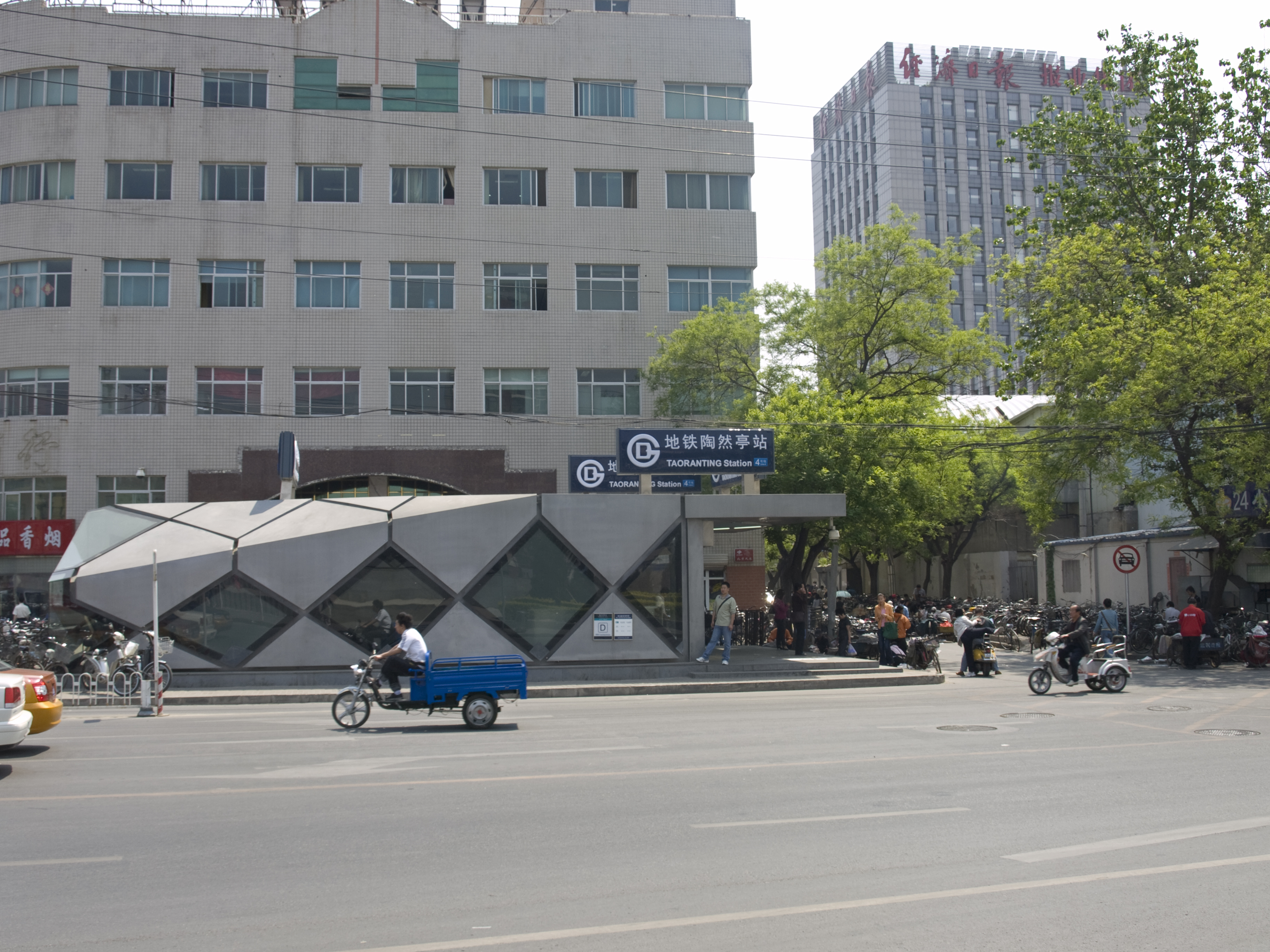 Taoranting station, Beijing subway